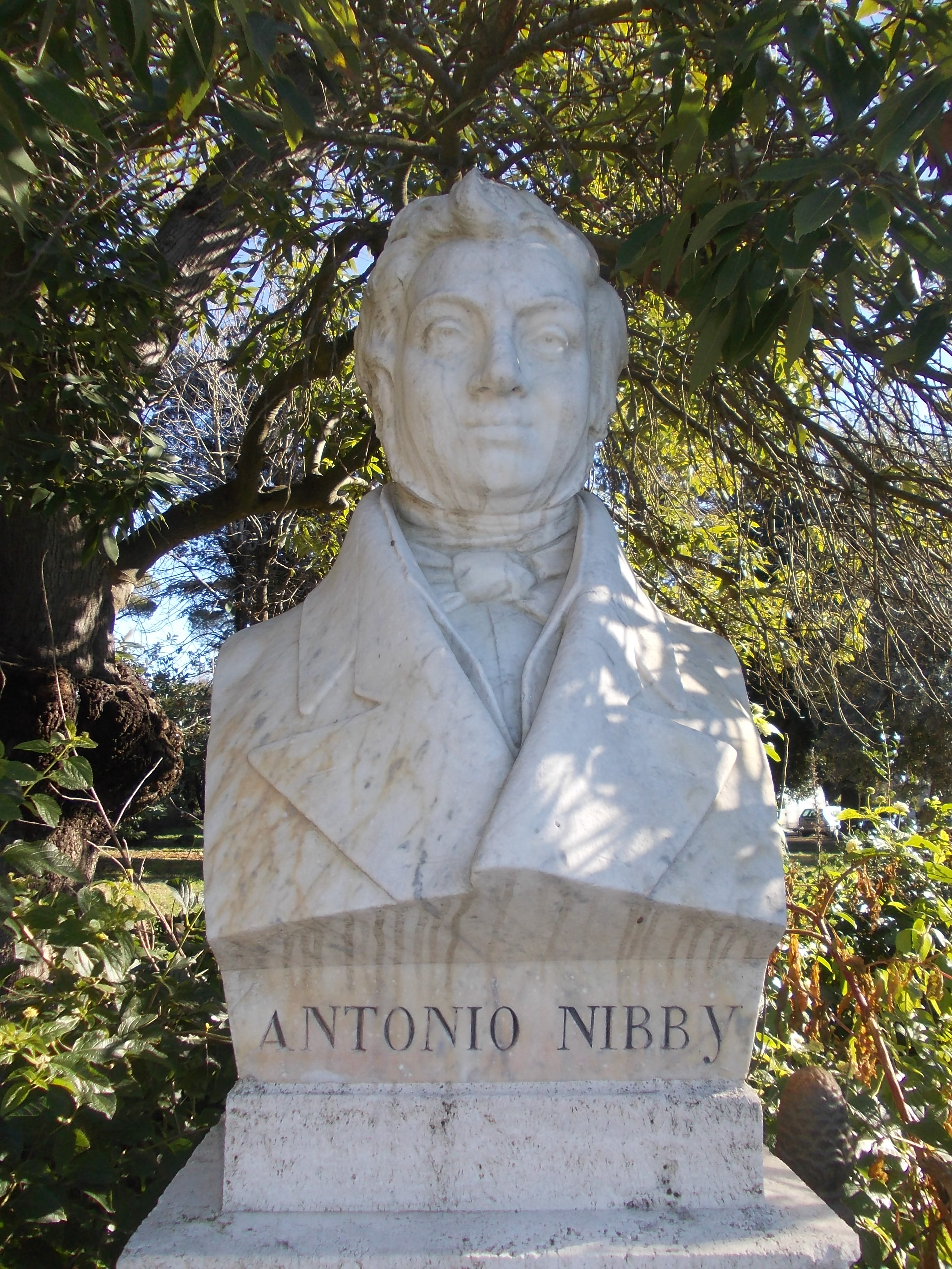 Marble bust of Antonio Nibby at Pincio, in Rome